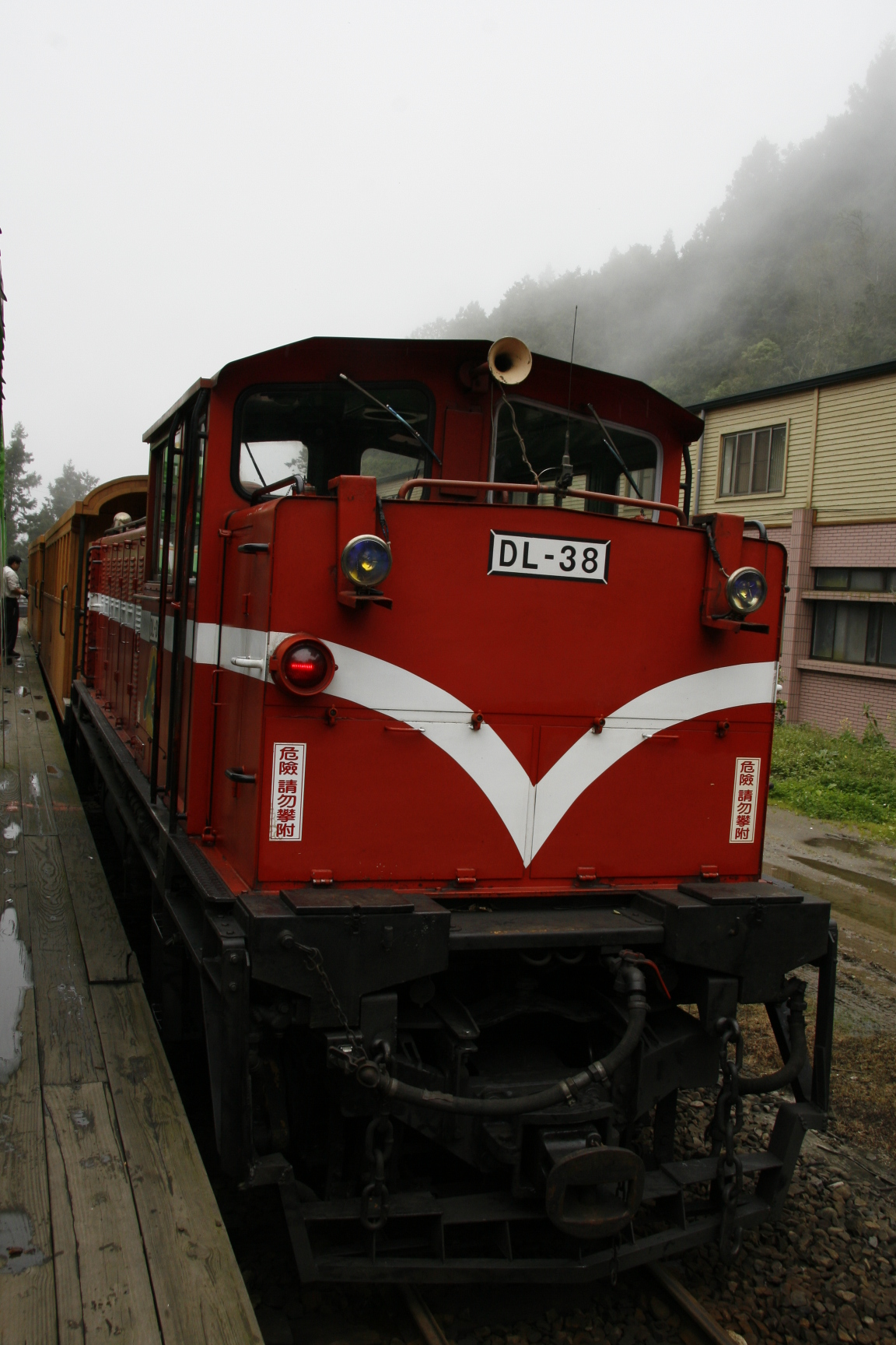 Alishan Forest Railway Diesel locomotive DL38 阿里山森林鐵路柴油機車DL38